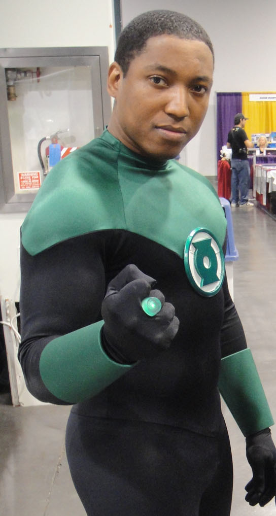 photo 2011 taken by Doug Kline If you're interested in higher resolution versions of my images, contact me via my profile page.